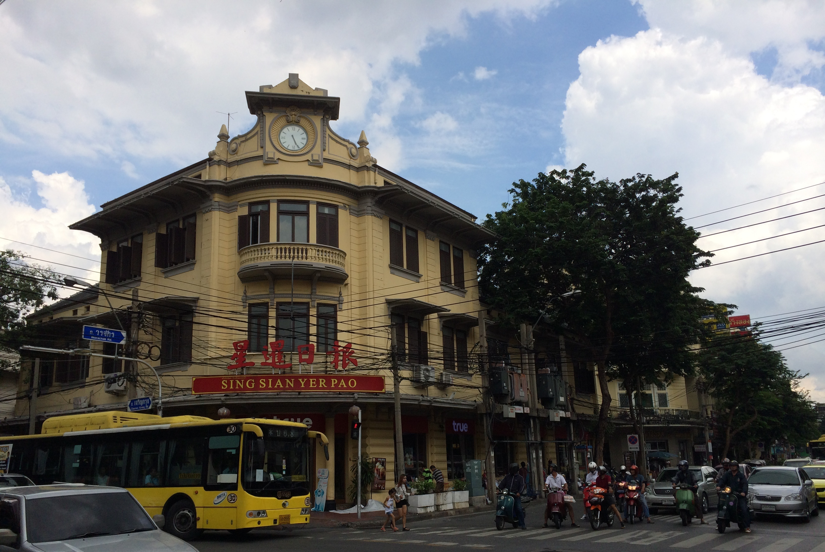 Image from the main street (Thanon) Charoen Krung, in central Bangkok, Thailand.